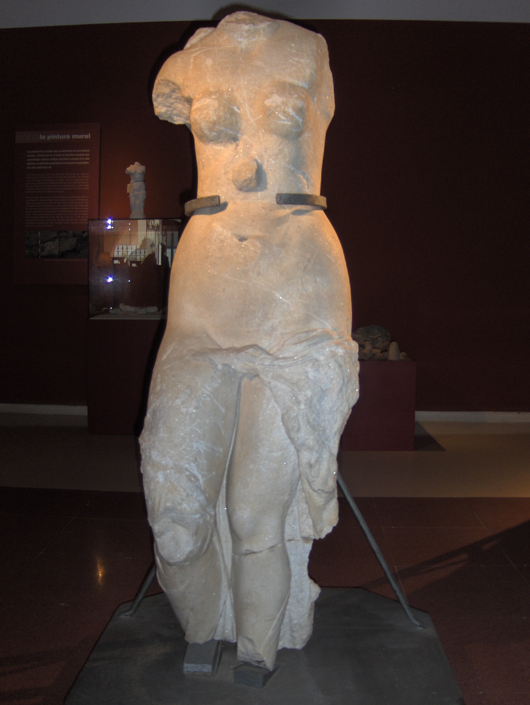 Venus of Fuengirola, 2nd Century AD. Museo de Historia de Fuengirola, Spain.